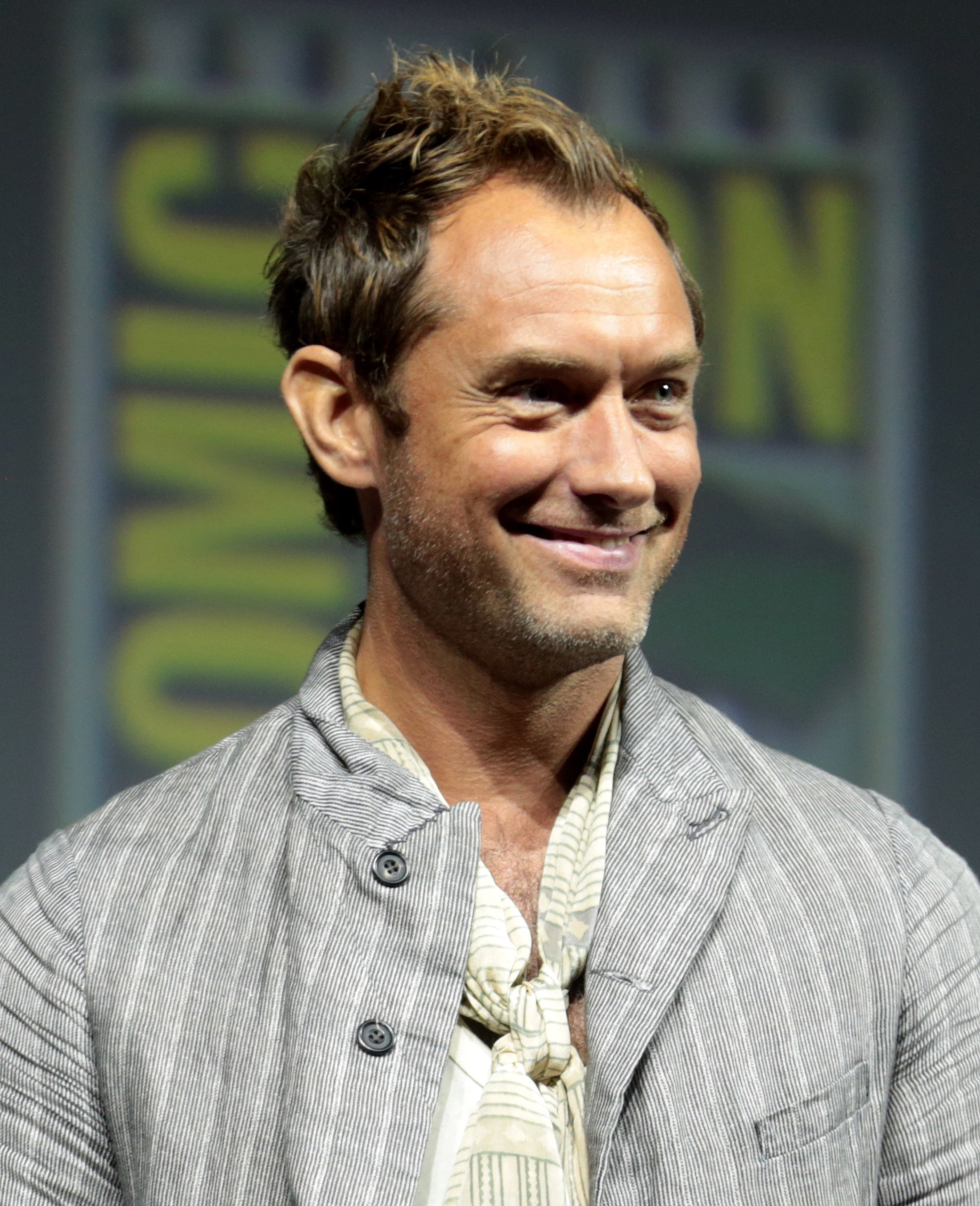 Jude Law speaking at the 2018 San Diego Comic-Con International in San Diego, California.